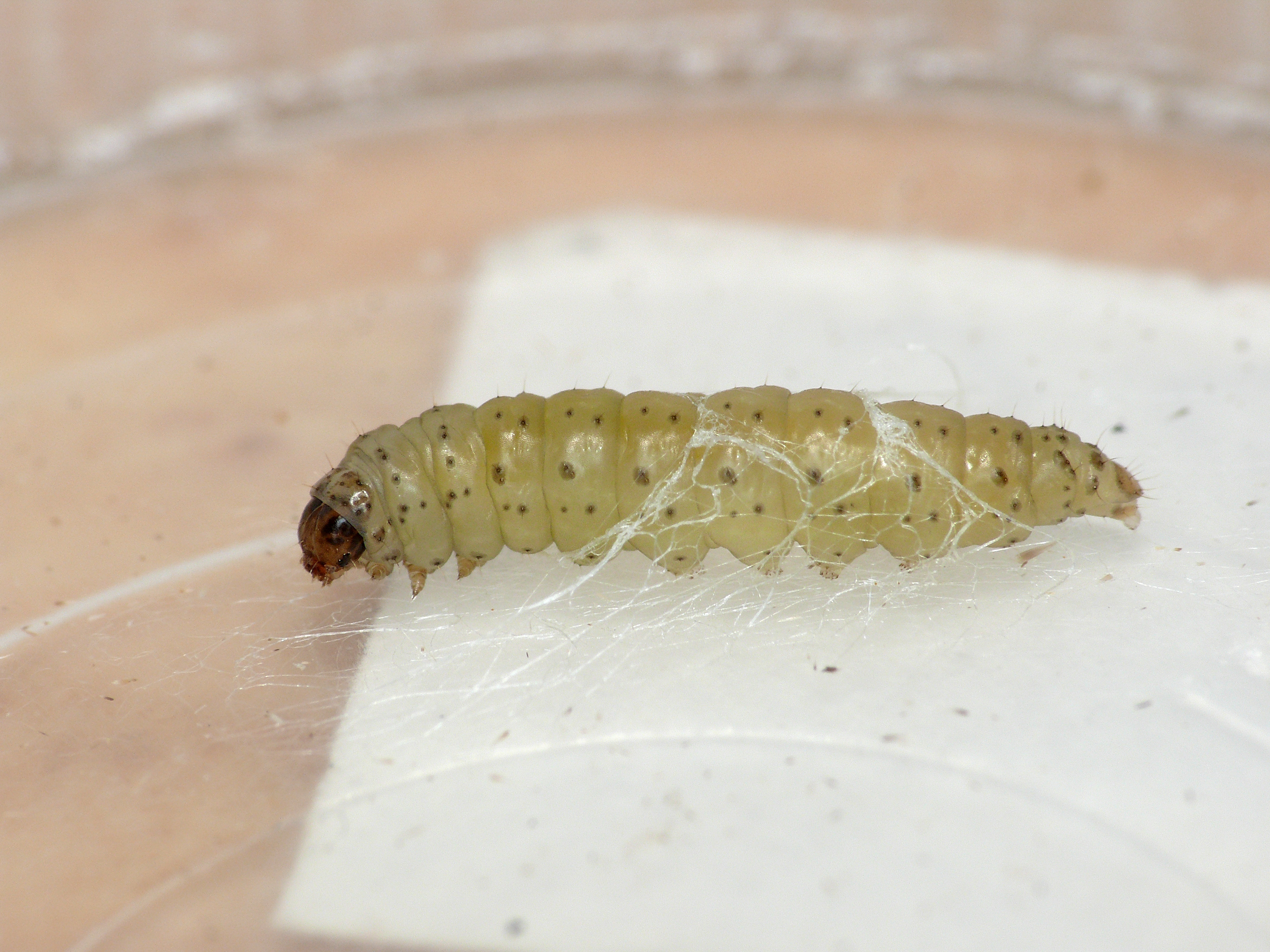 Photographed when it was a scarce moth.